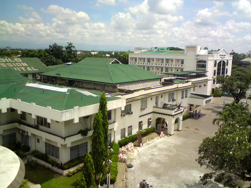 Iloilo Mission Hospital grounds